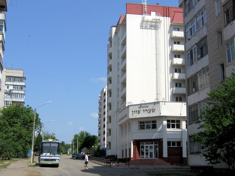 Hasidim residence/hotel in Uman Ukraine